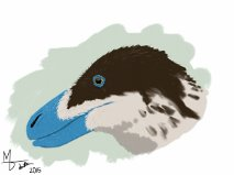 Hypothetical Head of new Hell Creek Dromaaeosaurid